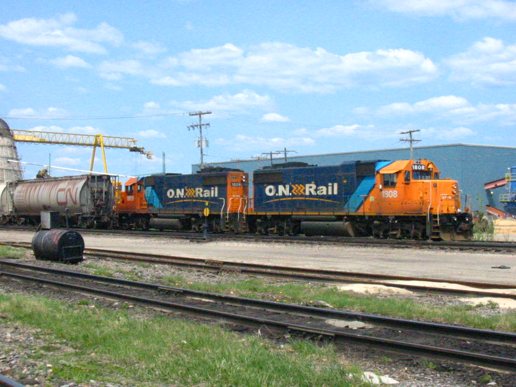 A pair of Ontario Northland locomotives at Hearst, ON Photo by Sean Lamb (User:Slambo), May 25 2003